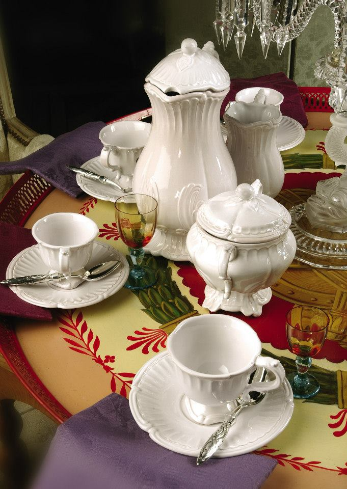 Beyerlé tableware. Earthenware shapes from ca. 1740, Niderviller, France